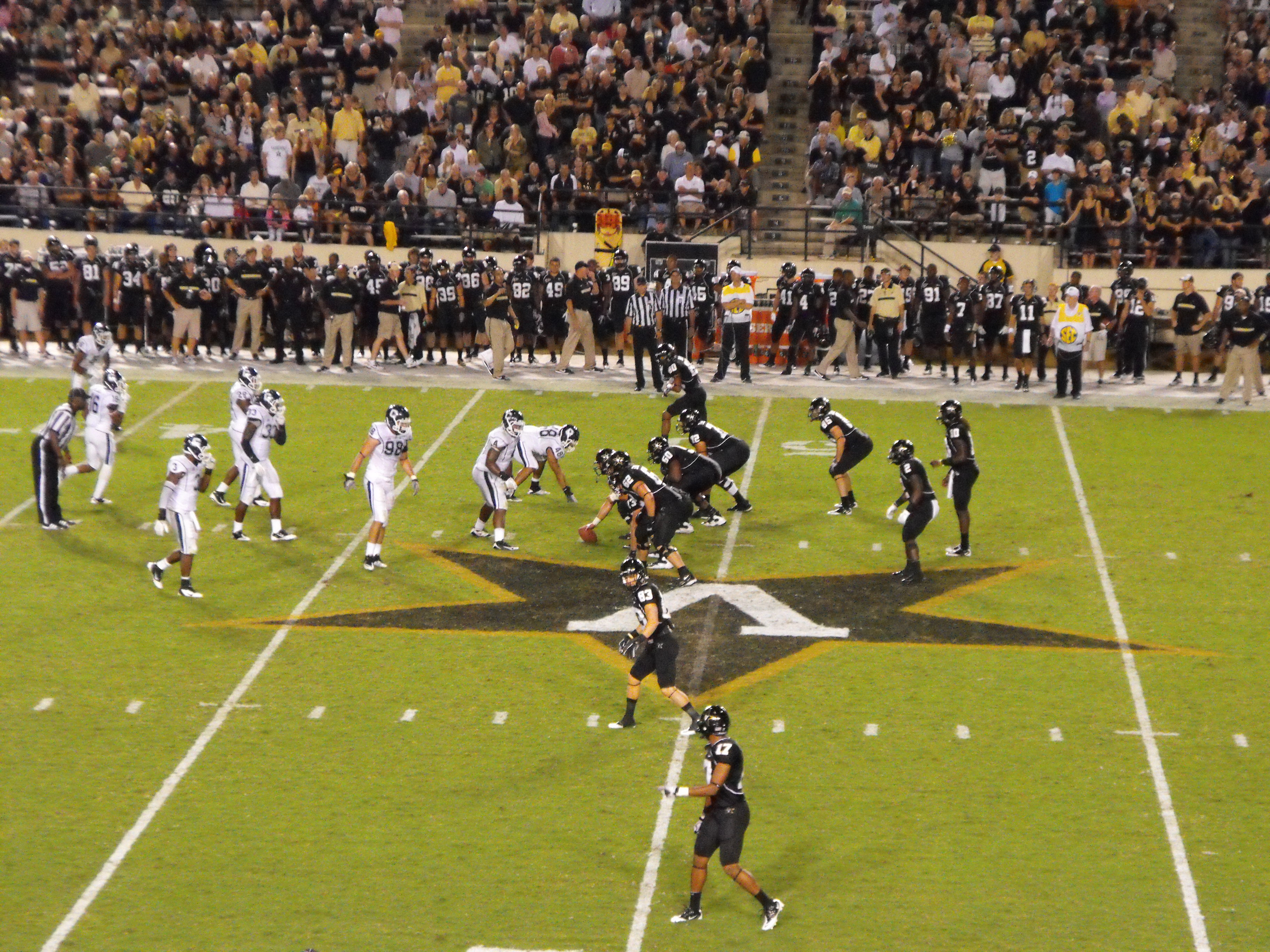 Made using Paint Pro XII Date29 October 2011SourceOwn workAuthorMDSankerOther versions released under GFDL Entirely my own work Made using Paint Pro XII